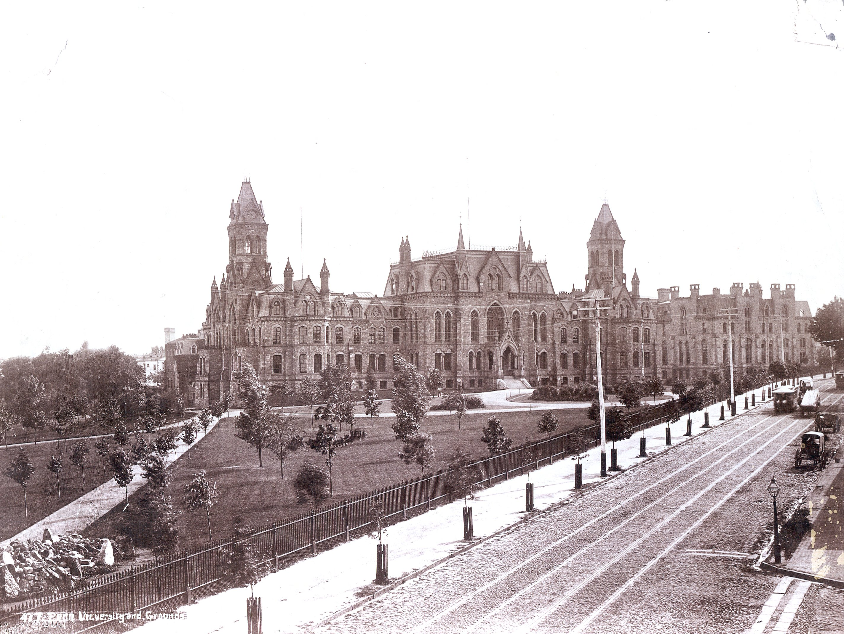 Woodland Avenue, College Hall (1871-1872, Thomas Webb Richards, architect), and (at far right) Logan Hall (1872-1873, Thomas Webb Richards, architect). Logan Hall (now Claudia Cohen Hall) housed the Medical School.